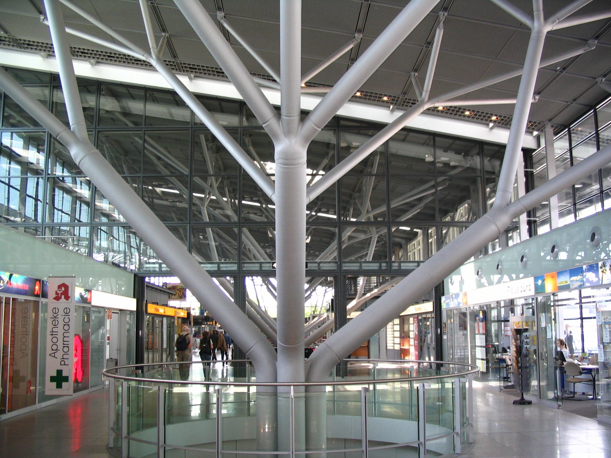 Image of the interior of Stuttgart Airport (between Terminal 1 and 3) taken on 2005-06-02 by James Bowes.